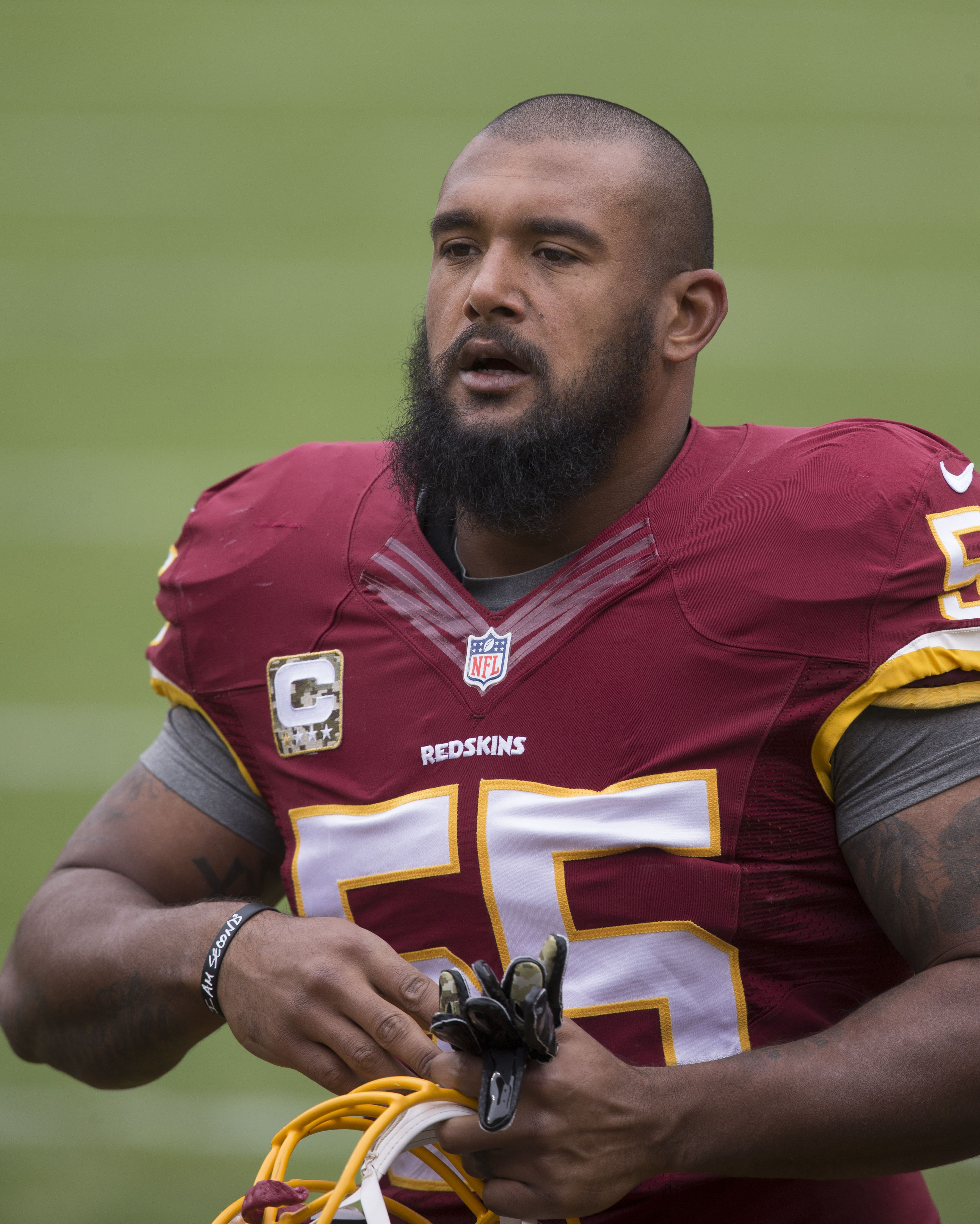 Buccaneers at Redskins 11/16/14